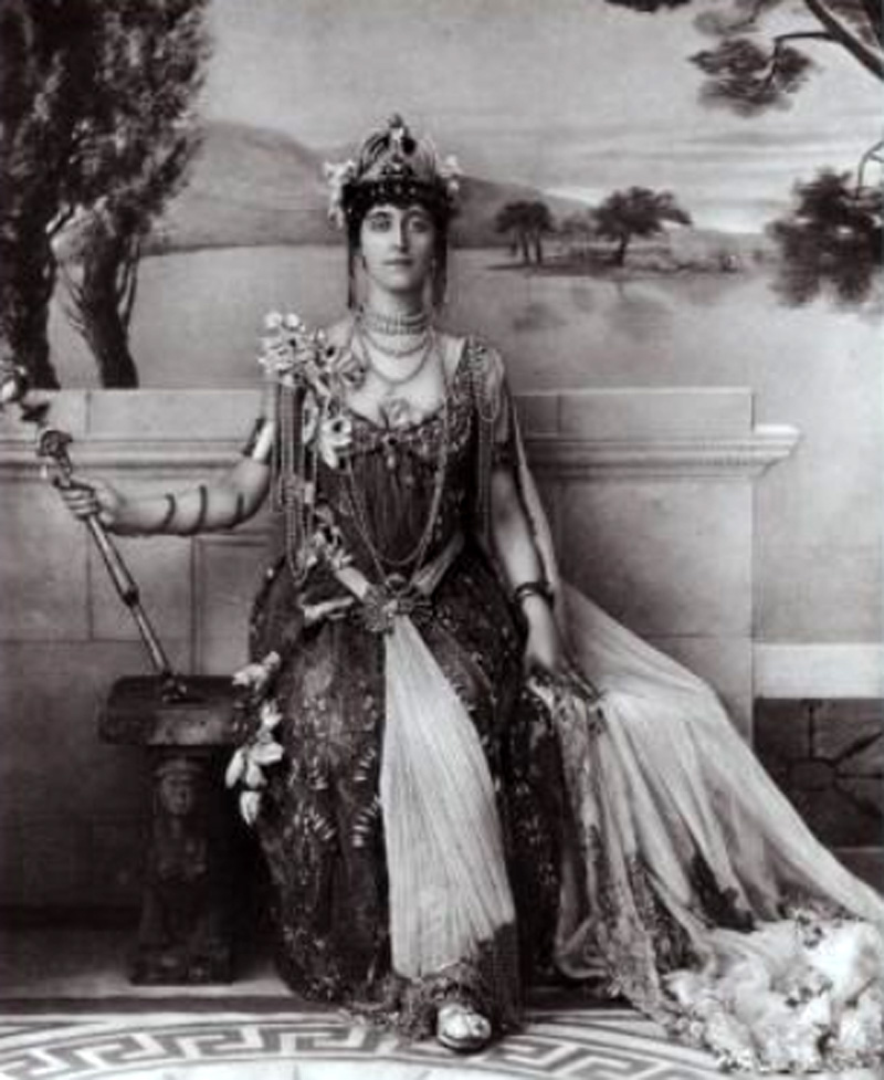 Gladys Lady Lonsdale circa 1900